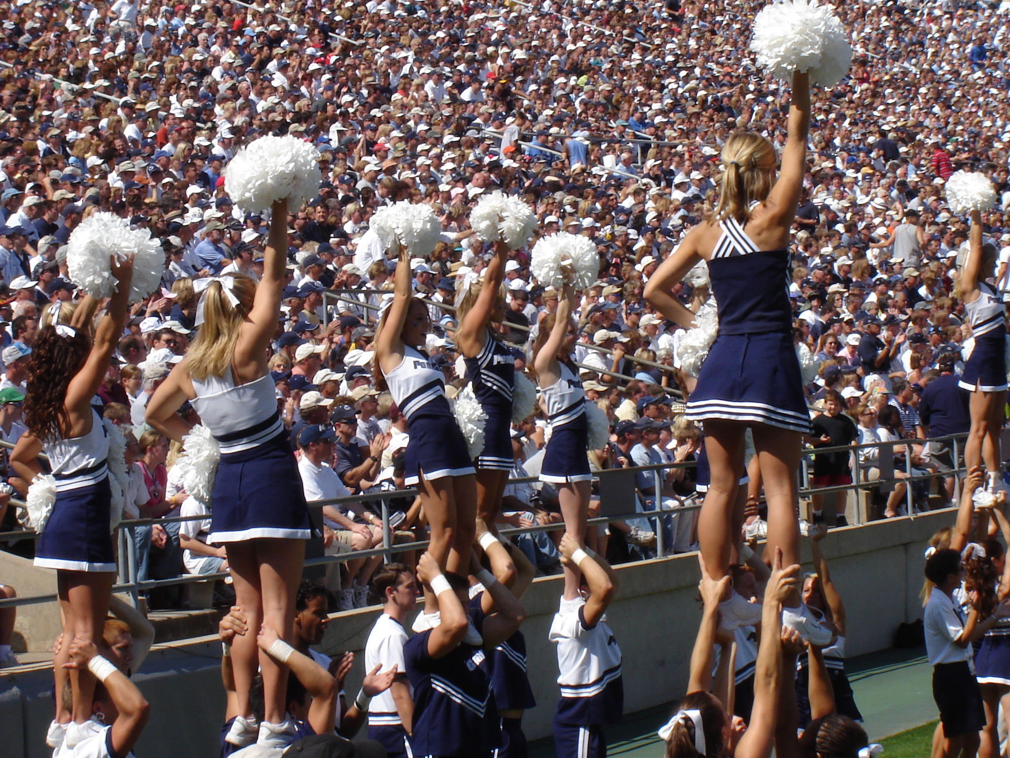 The Penn State Cheerleaders performing at the 2005 football game versus Cincinnati at Beaver Stadium.